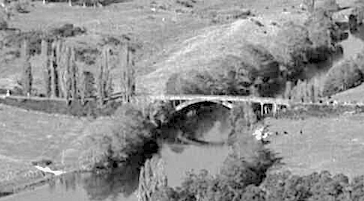 from north